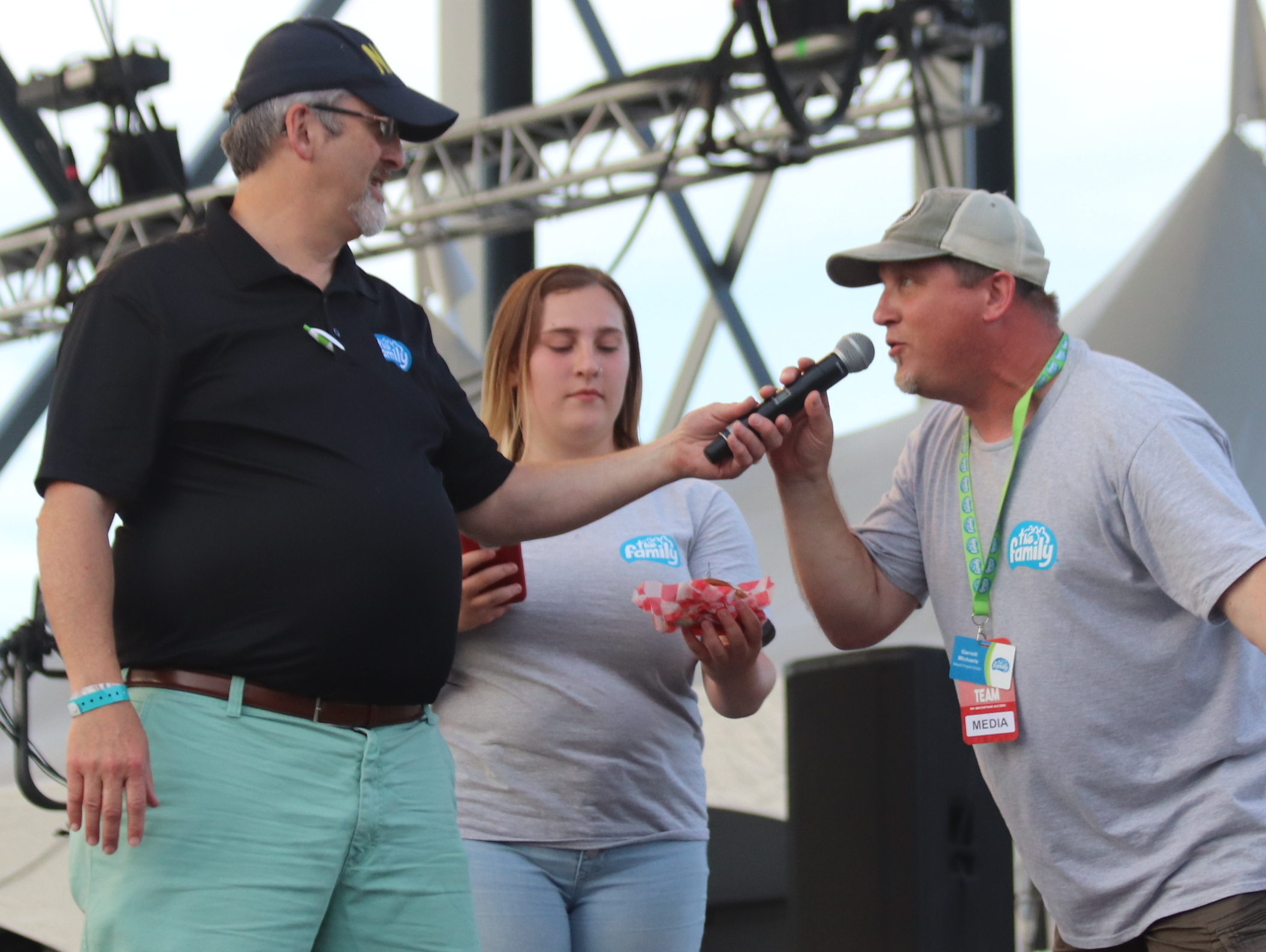 Morning (right) and afternoon (left) DJs for "The Family" Christian radio network on stage at Lifest.